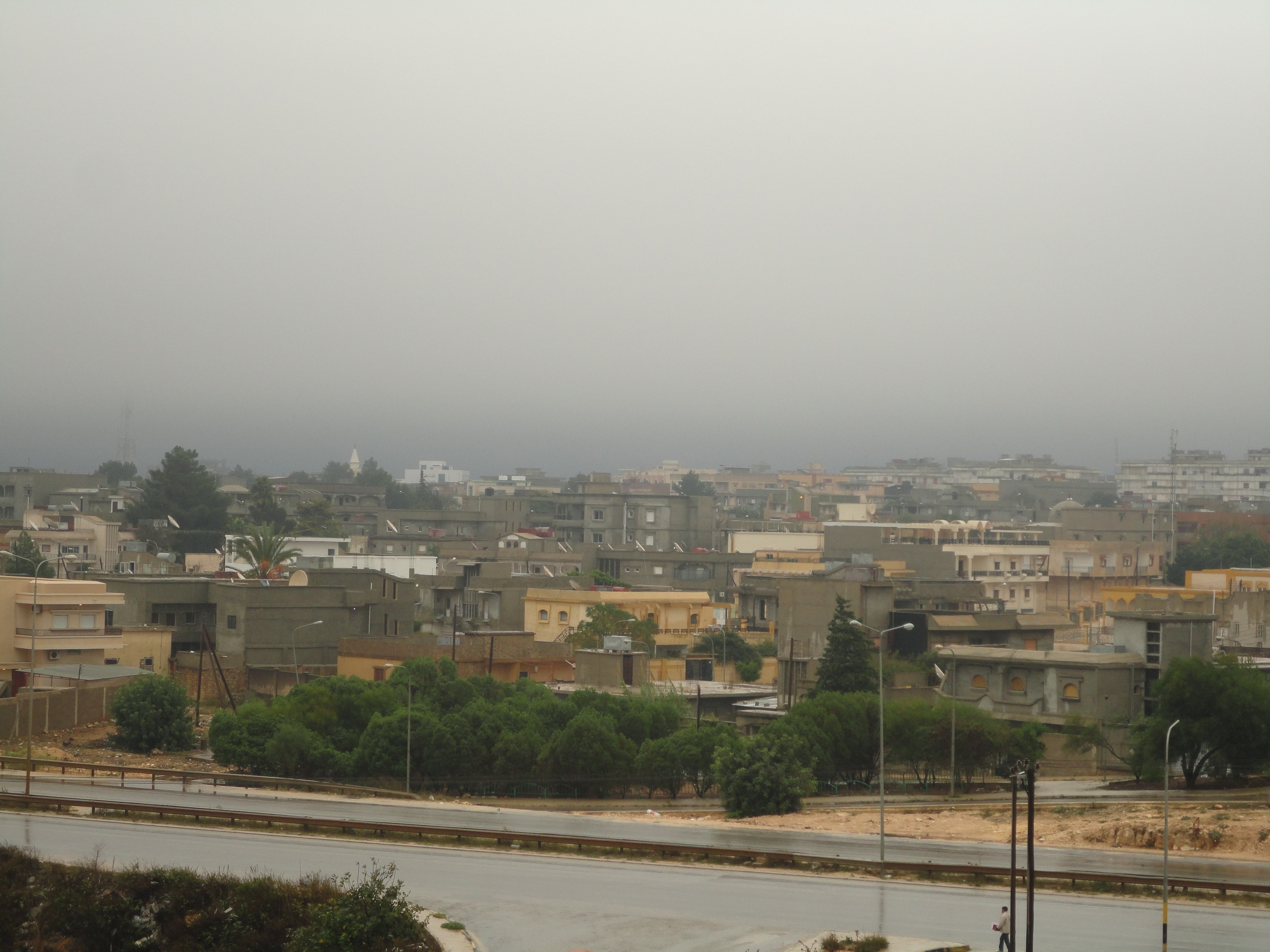 Neighborhood of Zaytuna in Bayda city of Libya in 2010-11-13.